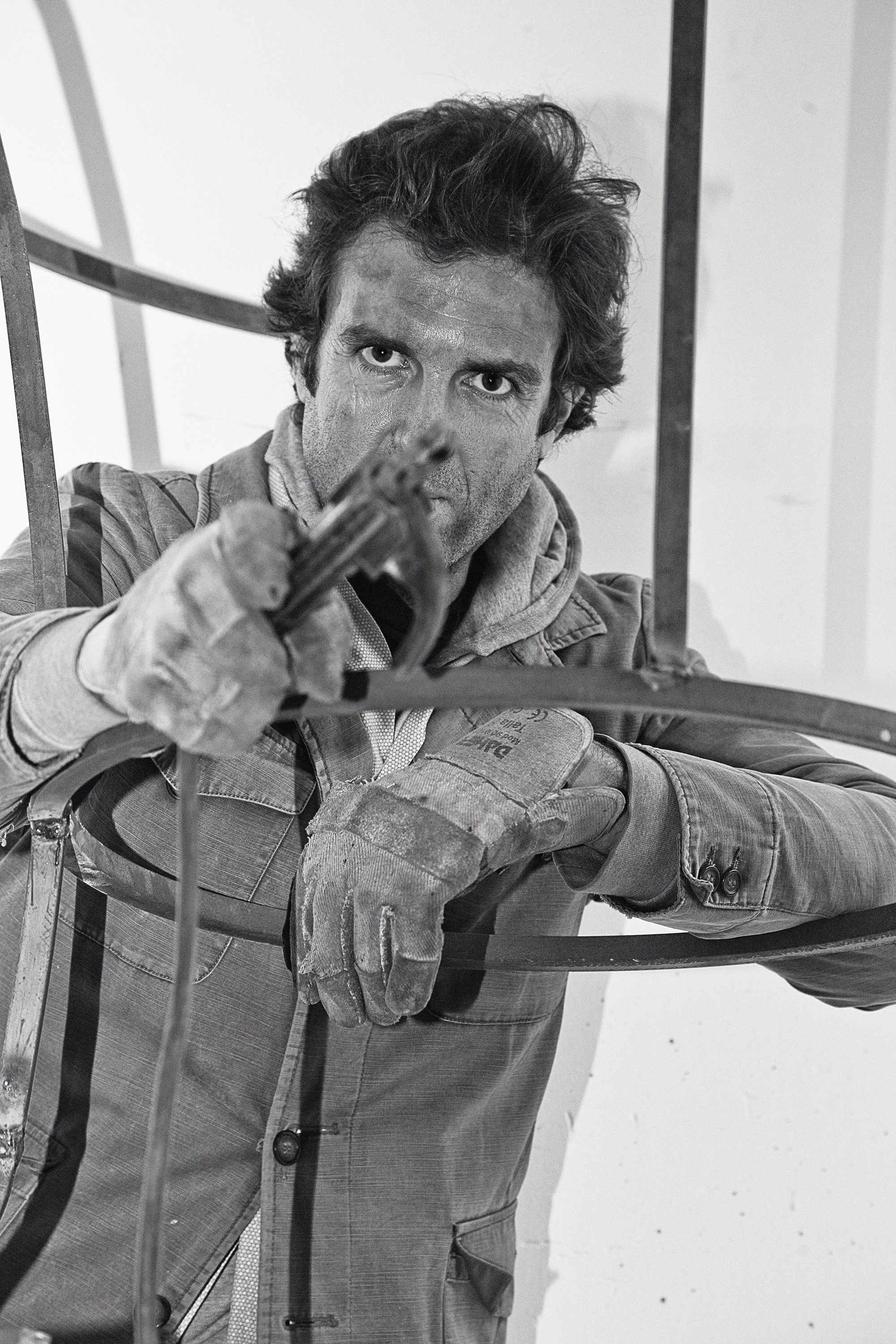 Portrait of the artist working.